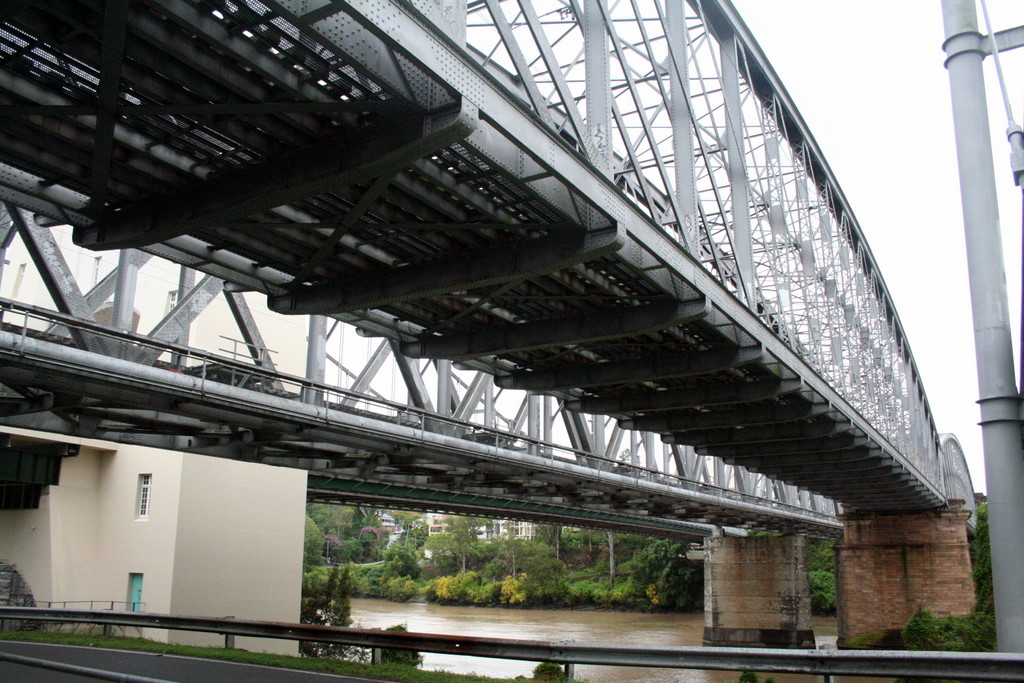 Photo taken by Paul Guard